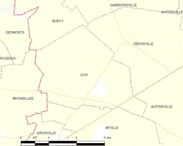 Map of French municipality Ichy